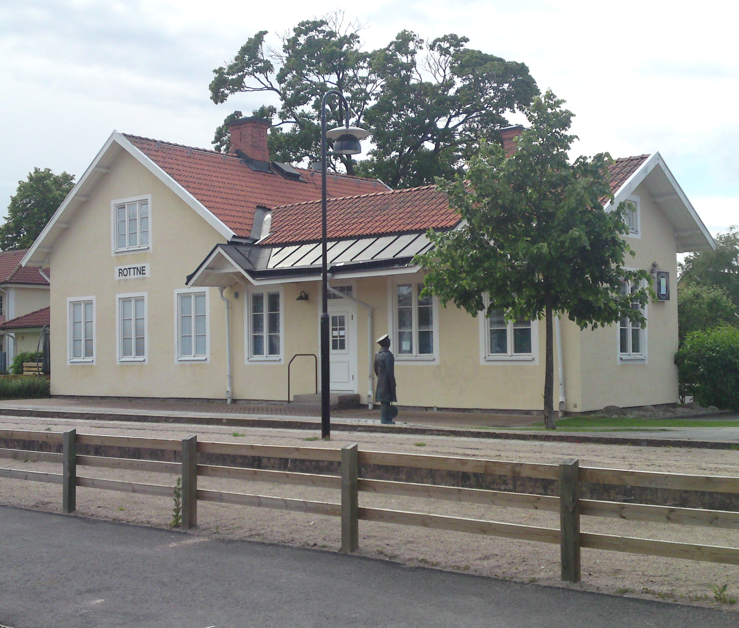 Rottne station. The railway to Rottne is no longer existing.